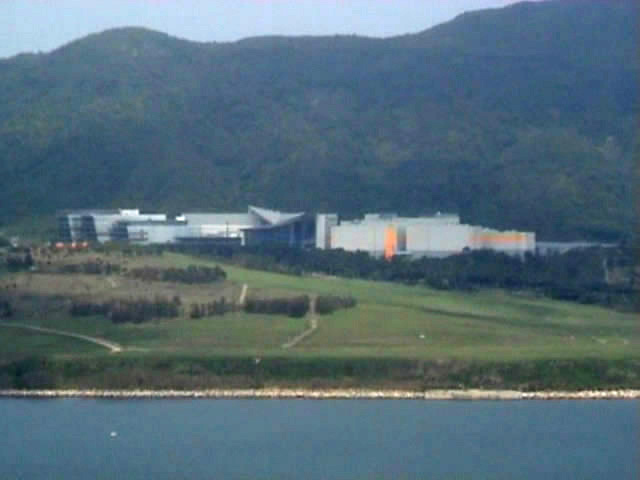 Shaw Brothers Studio.